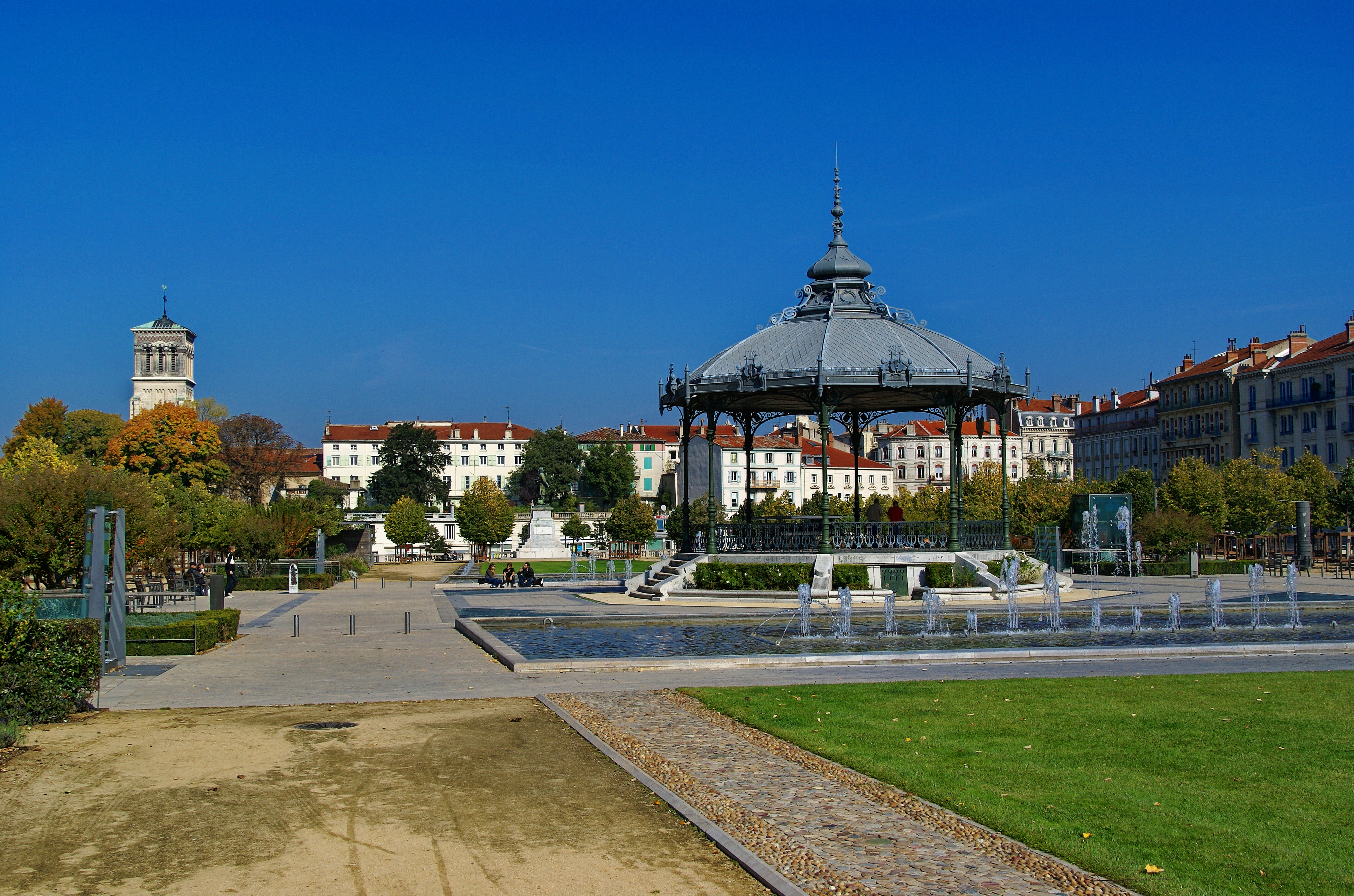 Valence - Esplanade Champ de Mars - View NNE towards Valence Cathedral